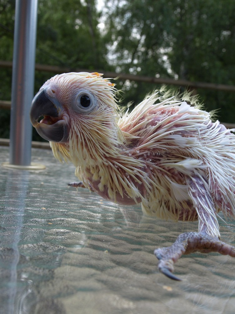 3-month-old Yellow-crested Cockatoo in the zoo in Děčín, Czech Republic.